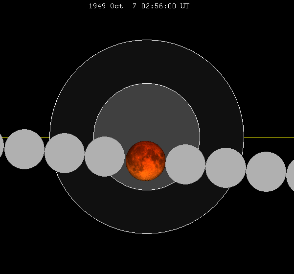 Lunar eclipse chart of moon's path through the earth's shadow. thumb